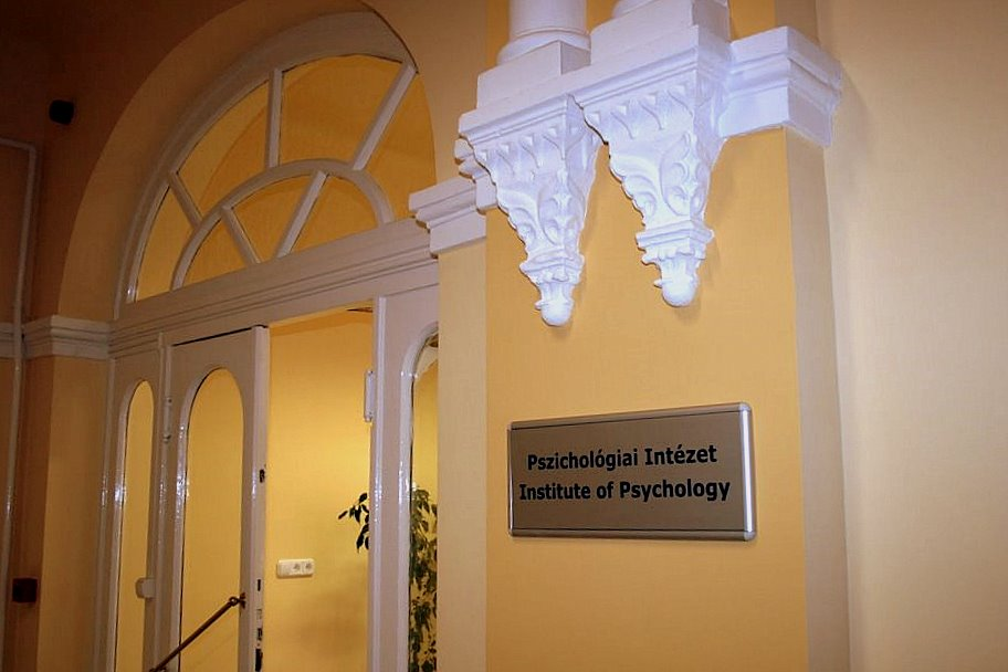 Institute of Psychology in Szeged